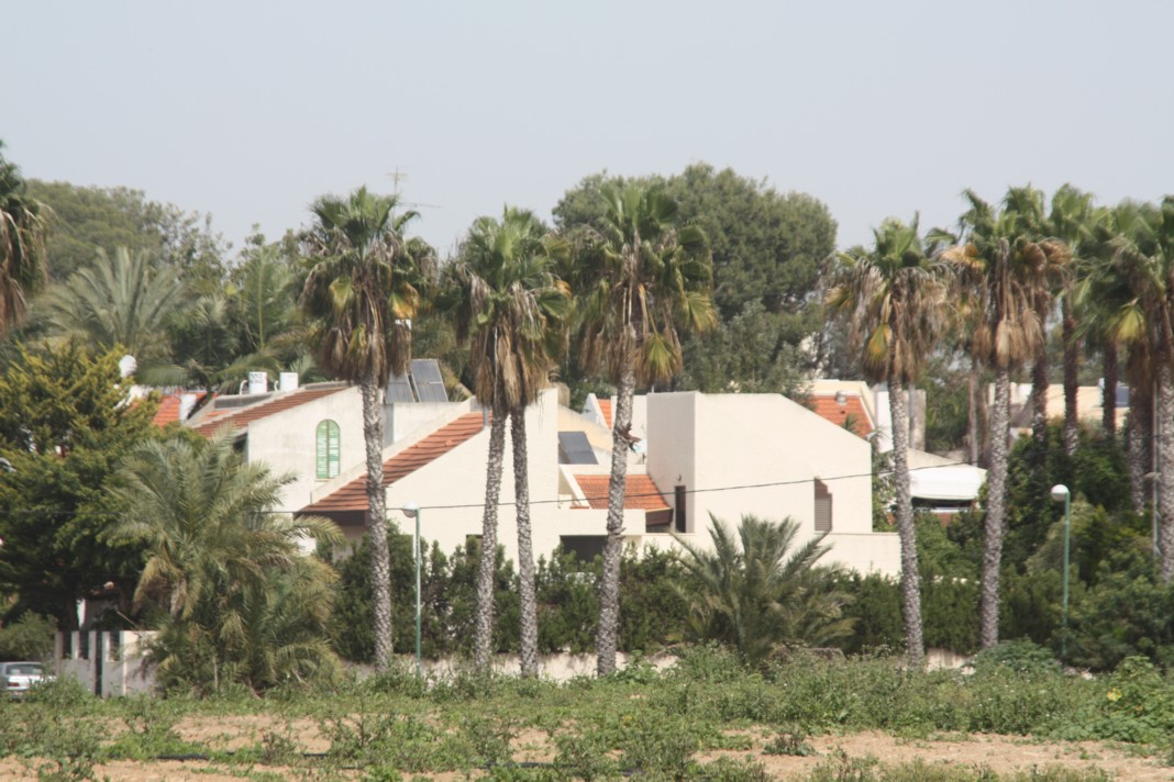 Houses in west Ramat Hasharon